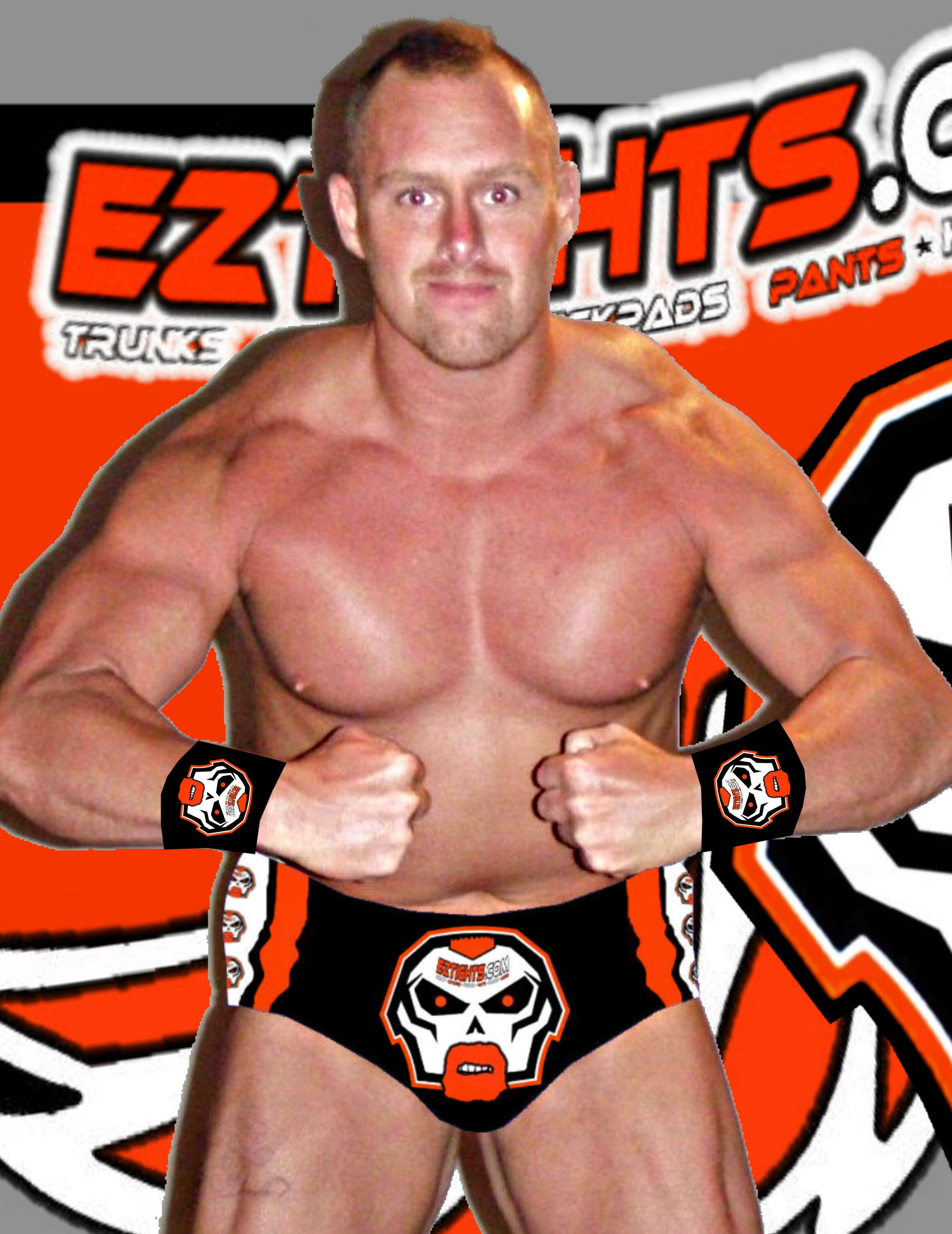 EZ Money